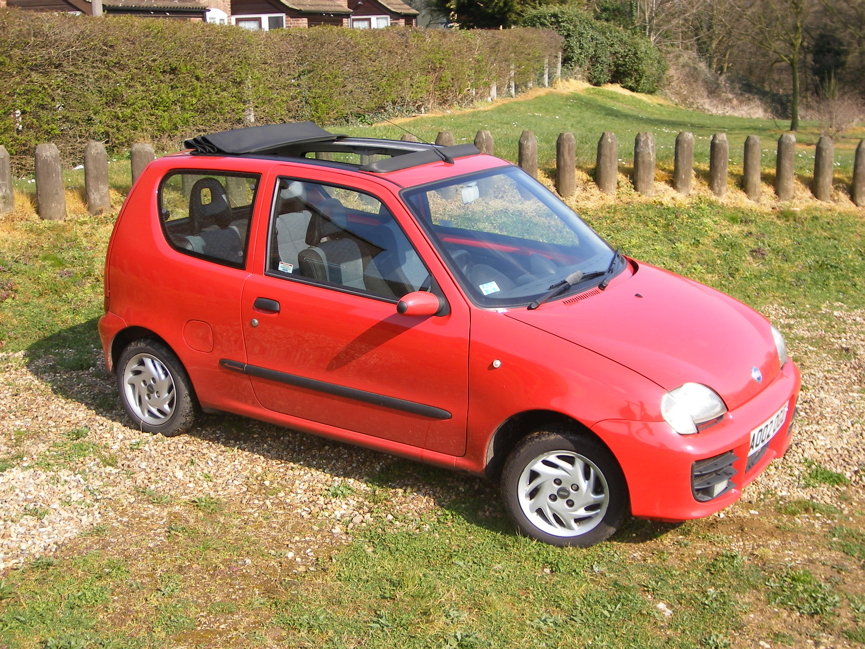 My Fiat Seicento 1.1 Sporting (produced in 2002).